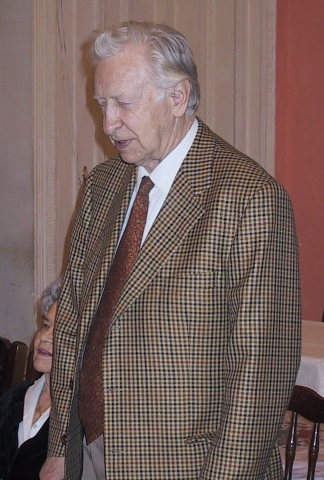 Vasili Smyslov at the 80th birthday of Juri Averbakh